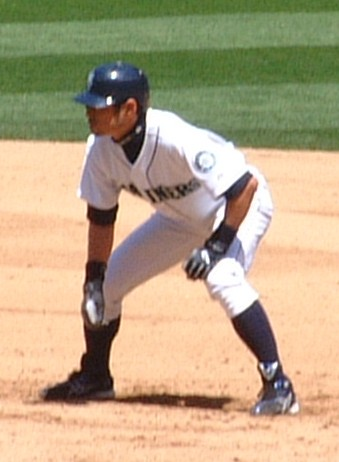 Ichiro on first base.